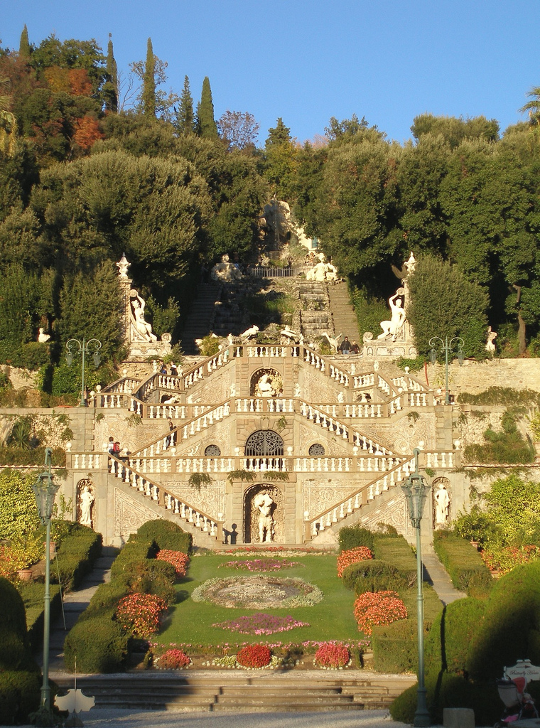 see abovesee above